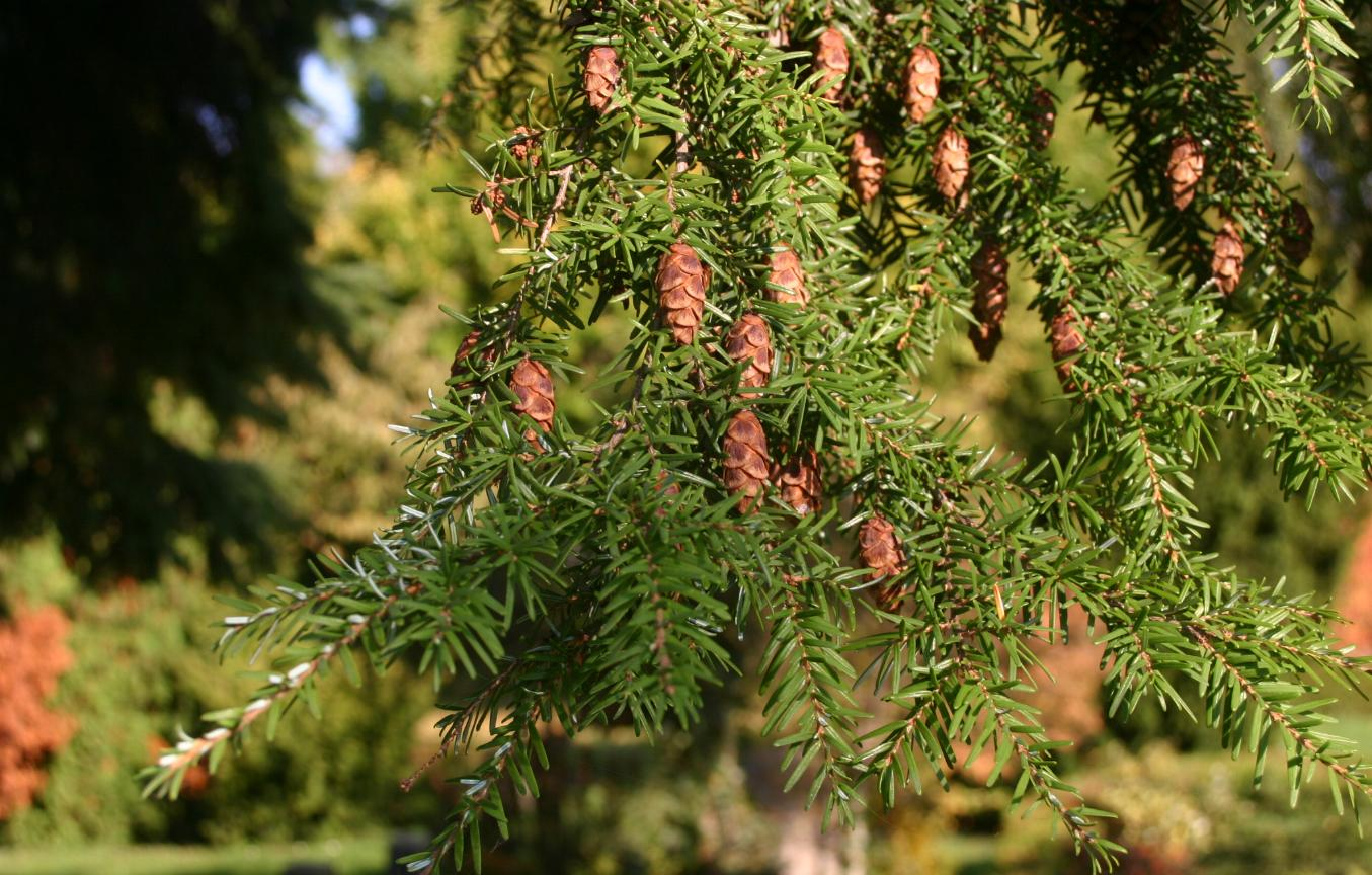 Tsuga heterophylla: Needles and cones.